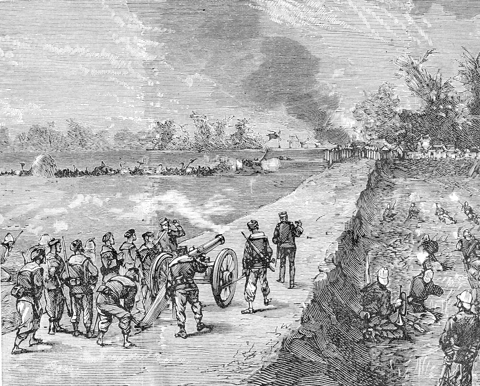 French artillery in action at the Battle of Gia Cuc, 27 and 28 March 1883